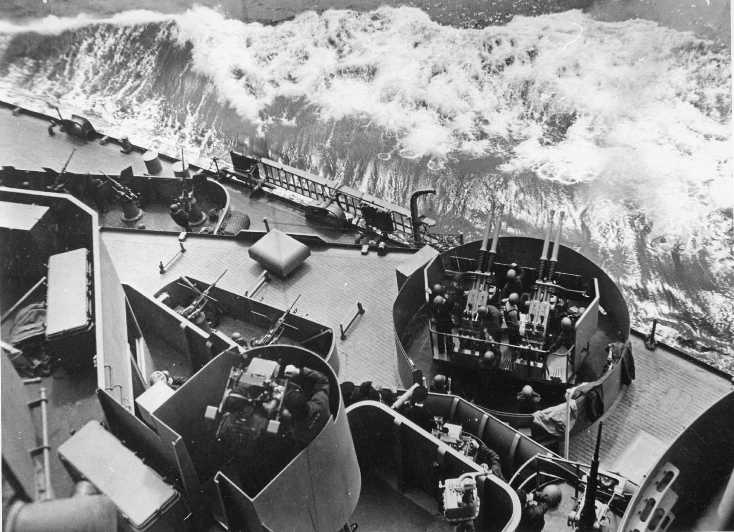 Secondary Battery Control and light AA guns aboard the South Dakota (BB-57) in the Atlantic, 1943.